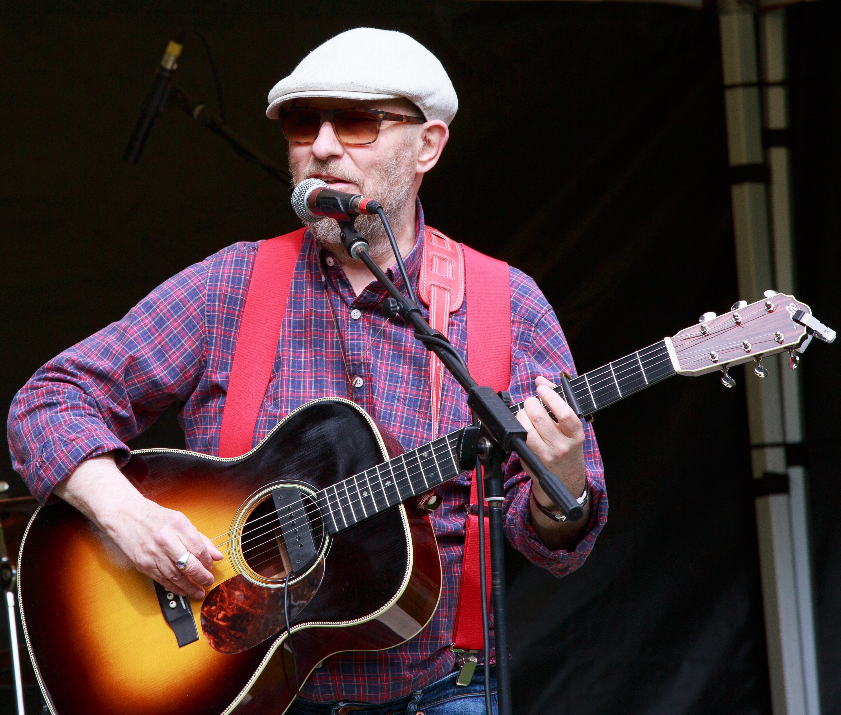 Marc Brierley performs The Room from the 1969 CBS LP, “Hello” at Southport’s Folk In the Park event, July 30 2017